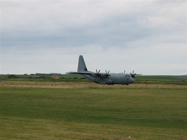 Machrihanish Airfield, Mull of Kintyre. Locheed C130C Hercules taxing down the main runway during the Mull of Kintyre Airshow Weekend 22nd-23rd July 2006